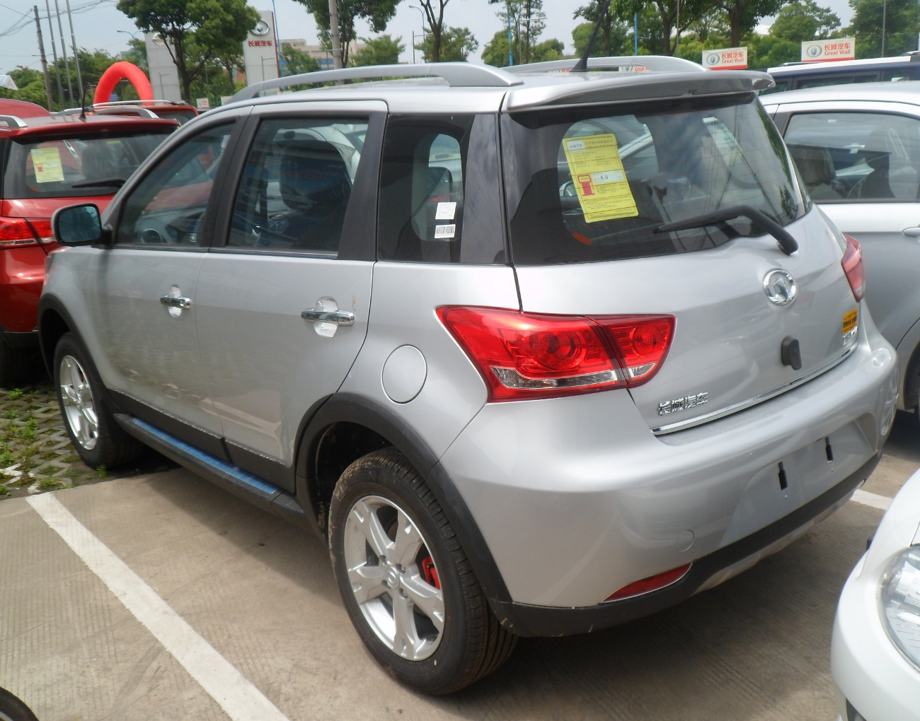 Great Wall Haval M4 photographed in Shanghai, China.